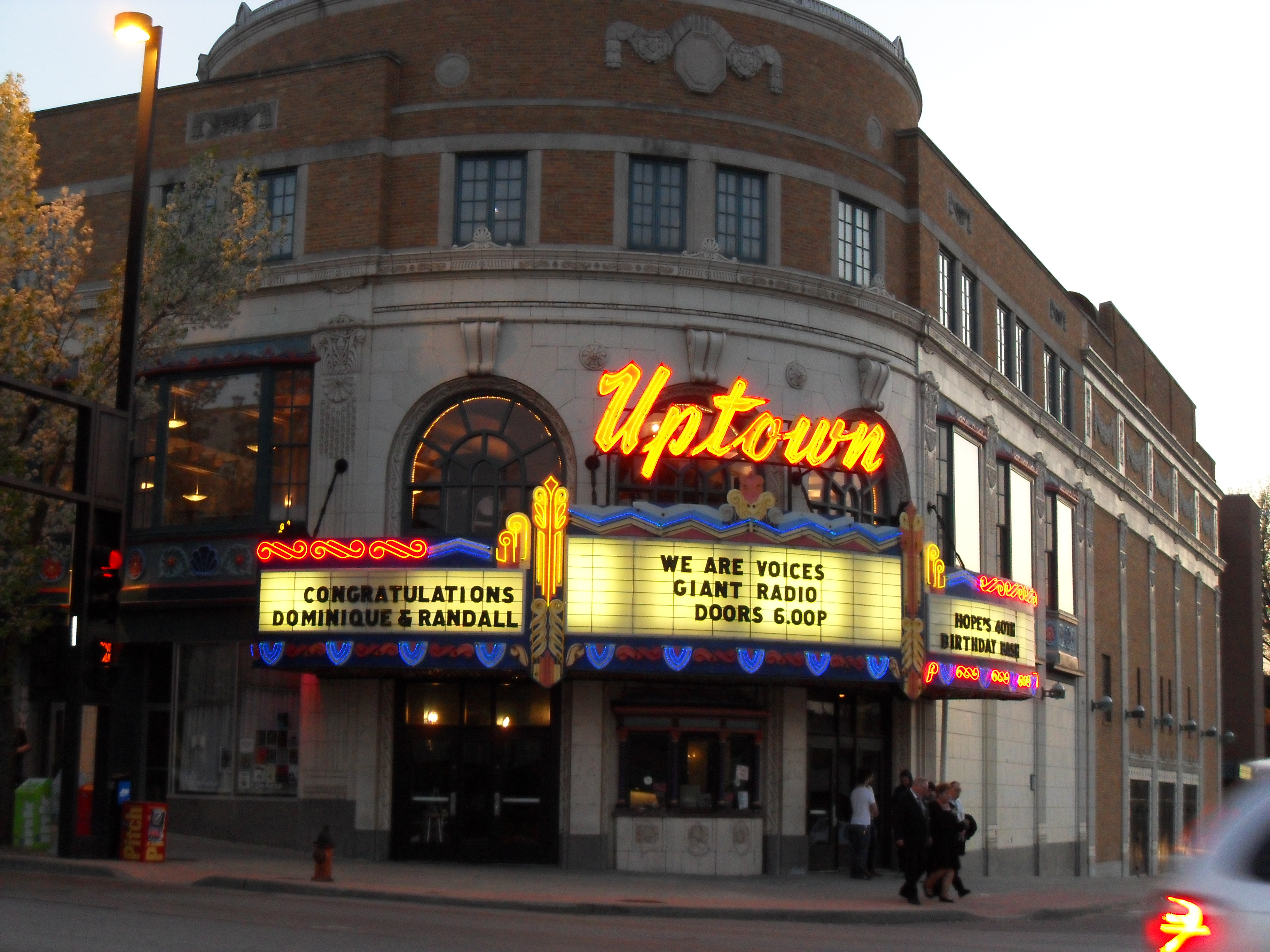 Across the street on Broadway Blvd. looking toward the Uptown Theater